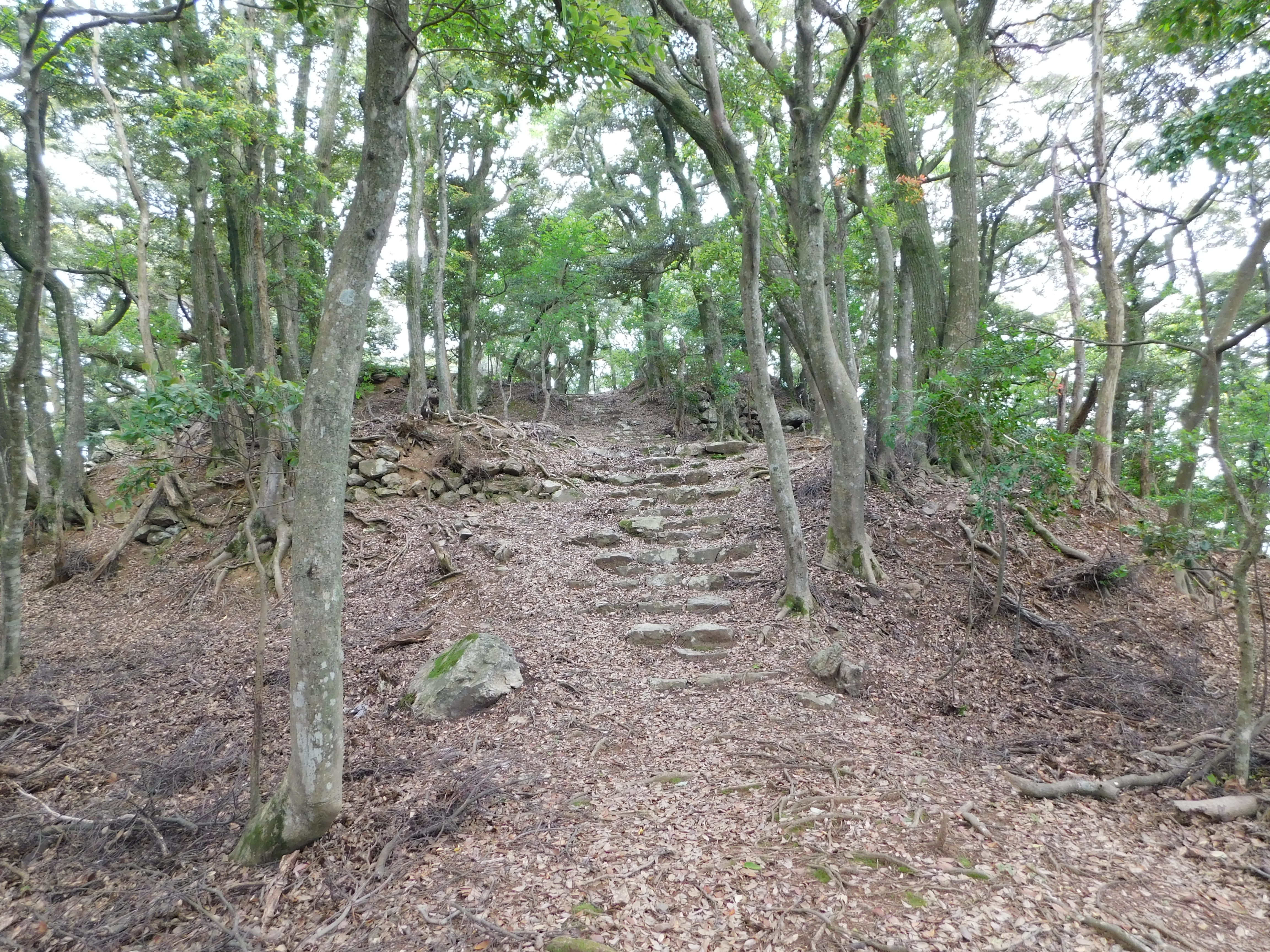 Nochise-yama moutain castle was built by Takeda Motomistu in 1522. He was the Wakasa country's lord in the Warring States-era. The castle ruines are located in Obama City, Fukui Prefecture, Japan.